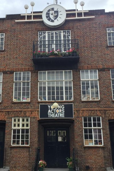 This is where the theatre is located on Barnsbury Road in Islington